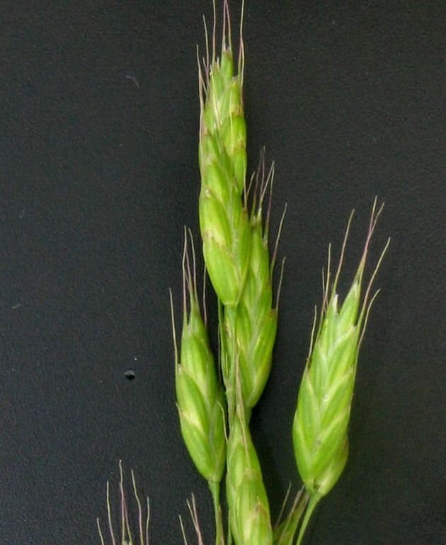 Bromus arvensis